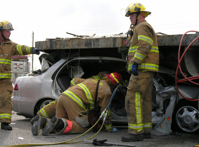 Firefighters and Special Operations teams of Palm Beach County Fire-Rescue work on the extraction of victim in a car collision with a semi-tractor trailer. .